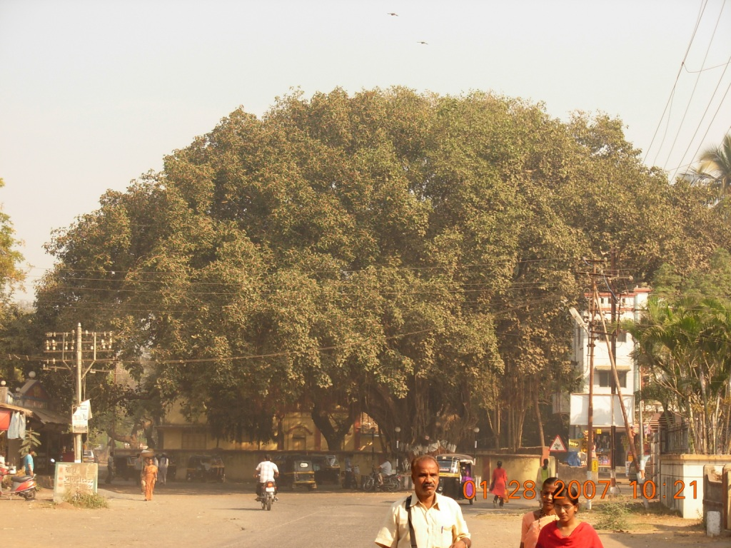 The huge Banyan tree at Parnaka, Dahanu. See the white bldg behind. It used to be a bungalow earlier & i used to stay there.. kedar